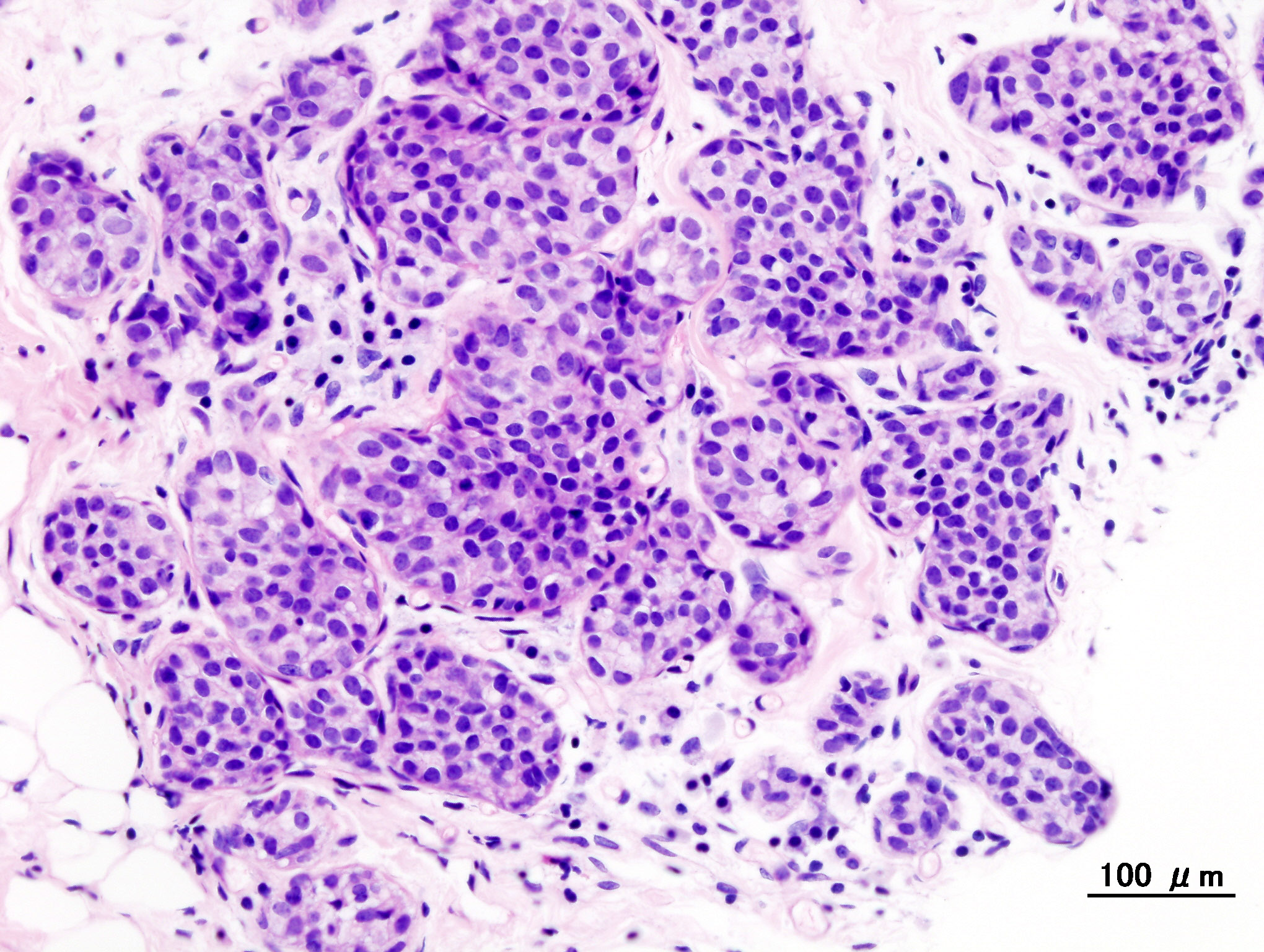 Lobular growth pattern focally seen in infiltrating ductal carcinoma. An anonymous Peer reviewer said that this image did not represent "lobular neoplasia", but lobular cancerisation of ductal carcinoma in situ.